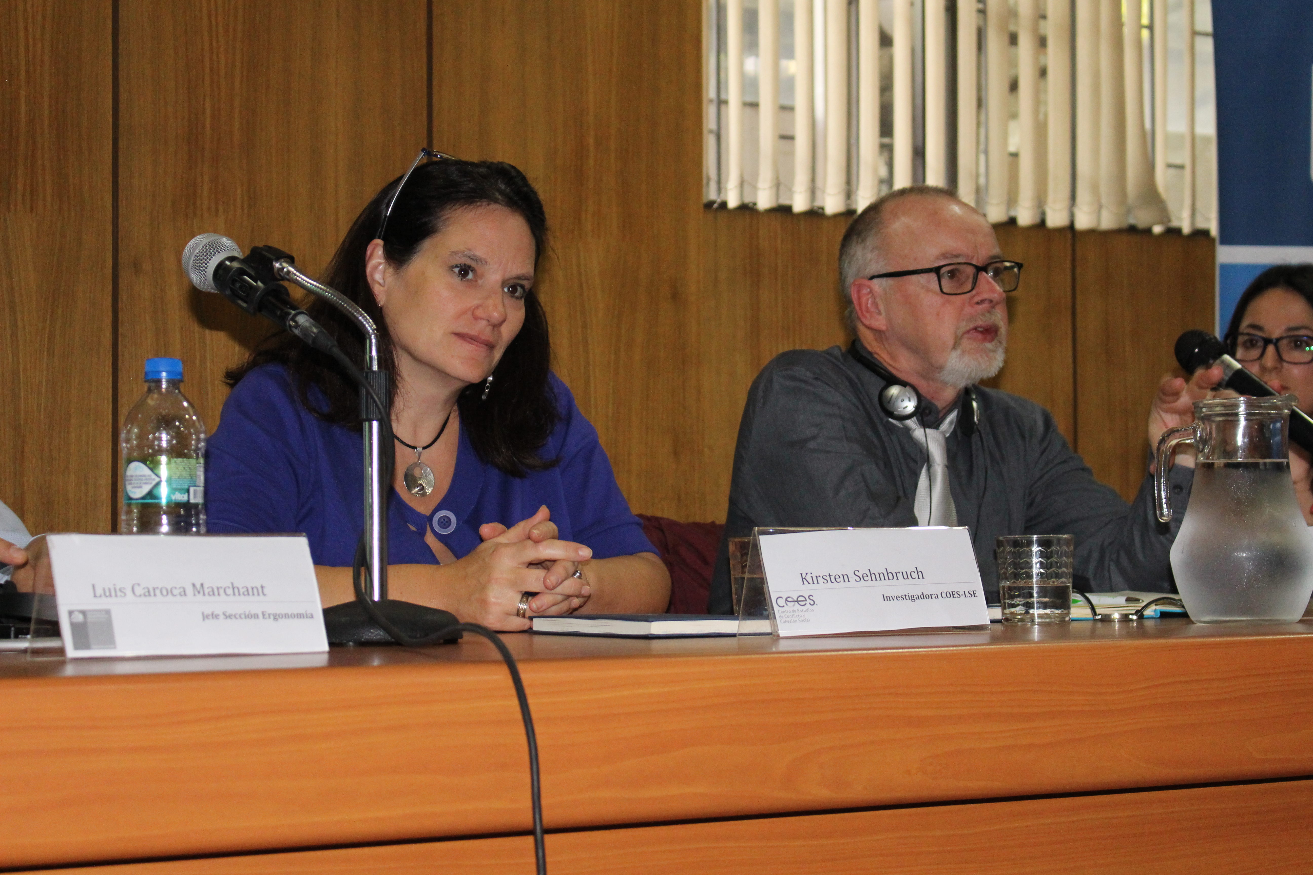 Kirsten and Brendan at conference on employment